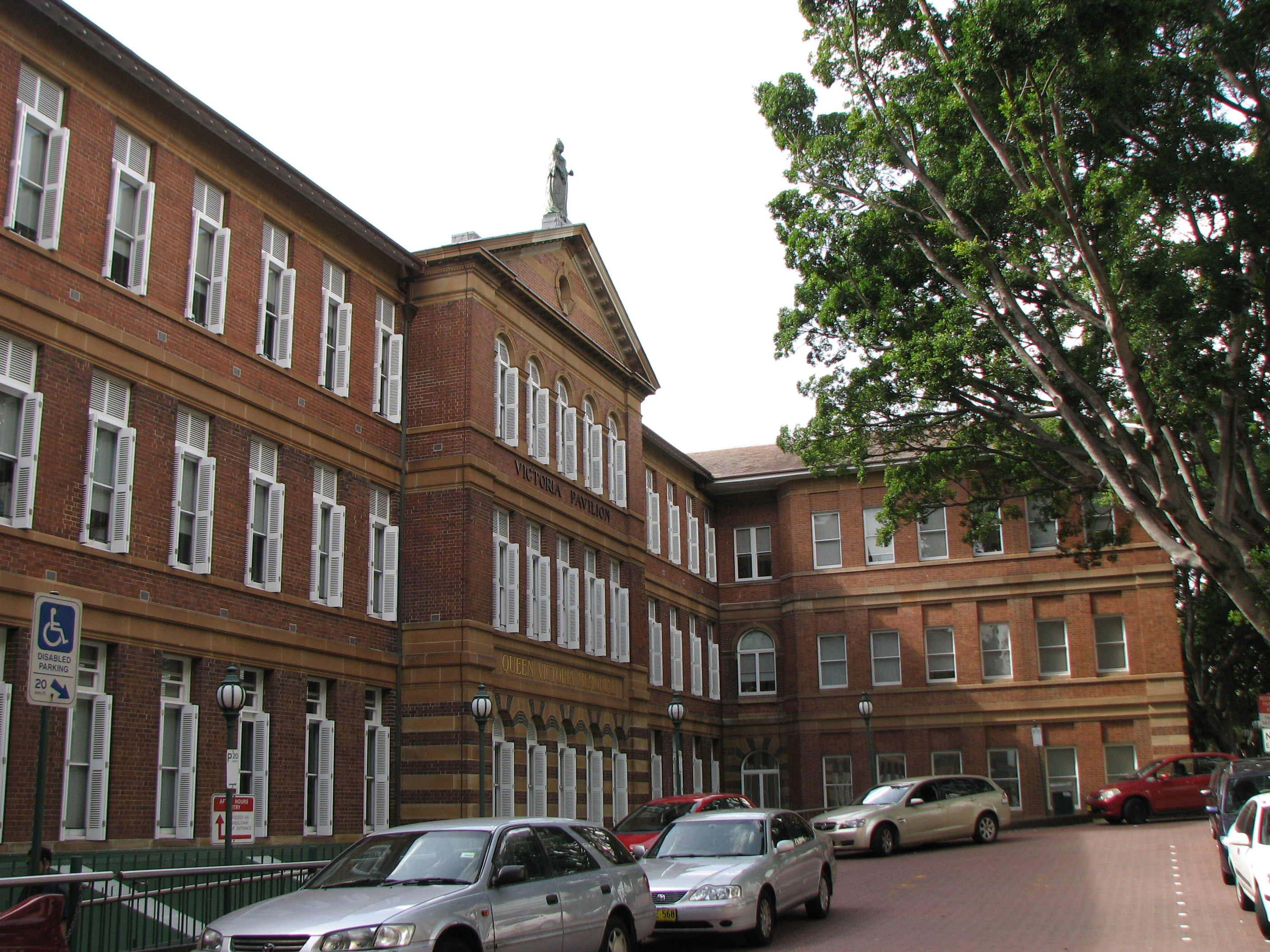 The Albert and Victoria Pavillons flank the Main Administration Building. These buildings are on the NSW Heritage Register